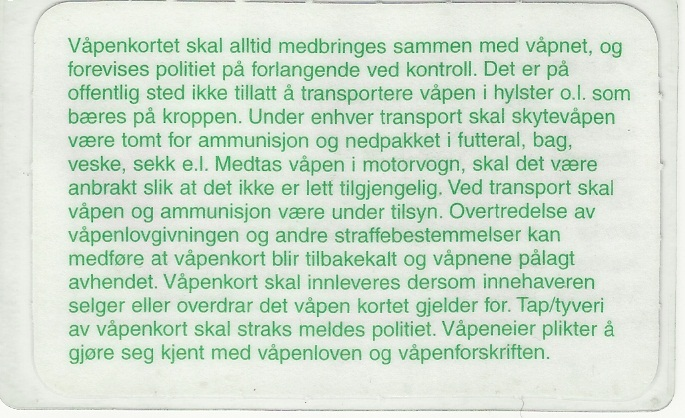 Norwegian gun permit, back